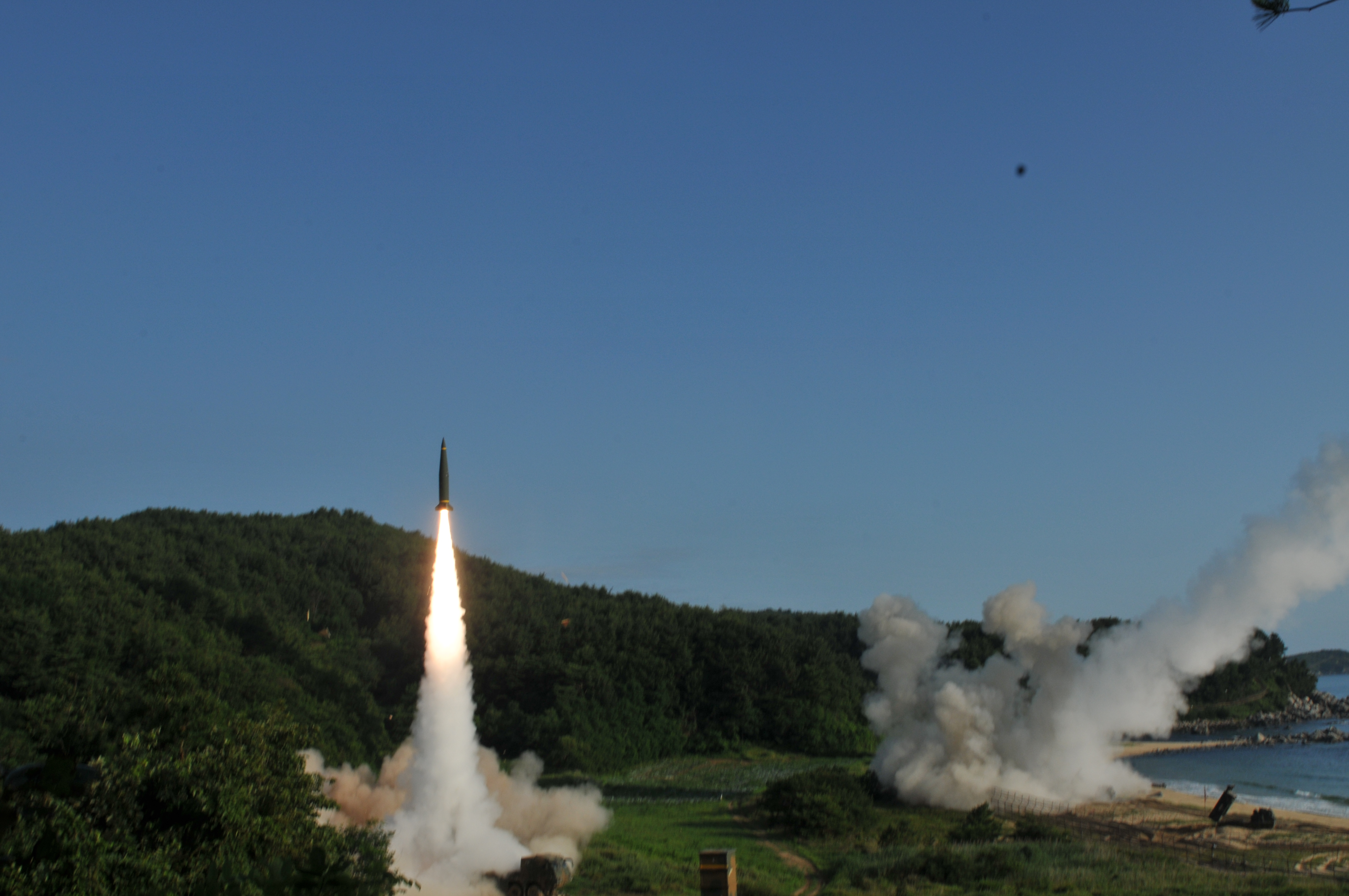 An M270 Multiple Launch Rocket System from A Battery, 6th Battalion, 37th Field Artillery Regiment, 210th Field Artillery Brigade, 2nd Republic of Korea/United States Combined Division, fires an MGM-140 Army Tactical Missile and Hyunmoo-2 or Korean army fires one missile into the East Sea, July 5. The missile launch demonstrated the combined deep strike capabilities which allow the ROK/U.S. Alliance to neutralize hostile threats and aggression against the ROK, U.S. and our Allies.